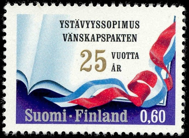 The Agreement of Friendship, Cooperation, and Mutual Assistance, also known as the YYA Treaty was the basis for Finno–Soviet relations from 1948 to 1992. It was the main instrument in implementing the Finnish policy called Paasikivi–Kekkonen Line.